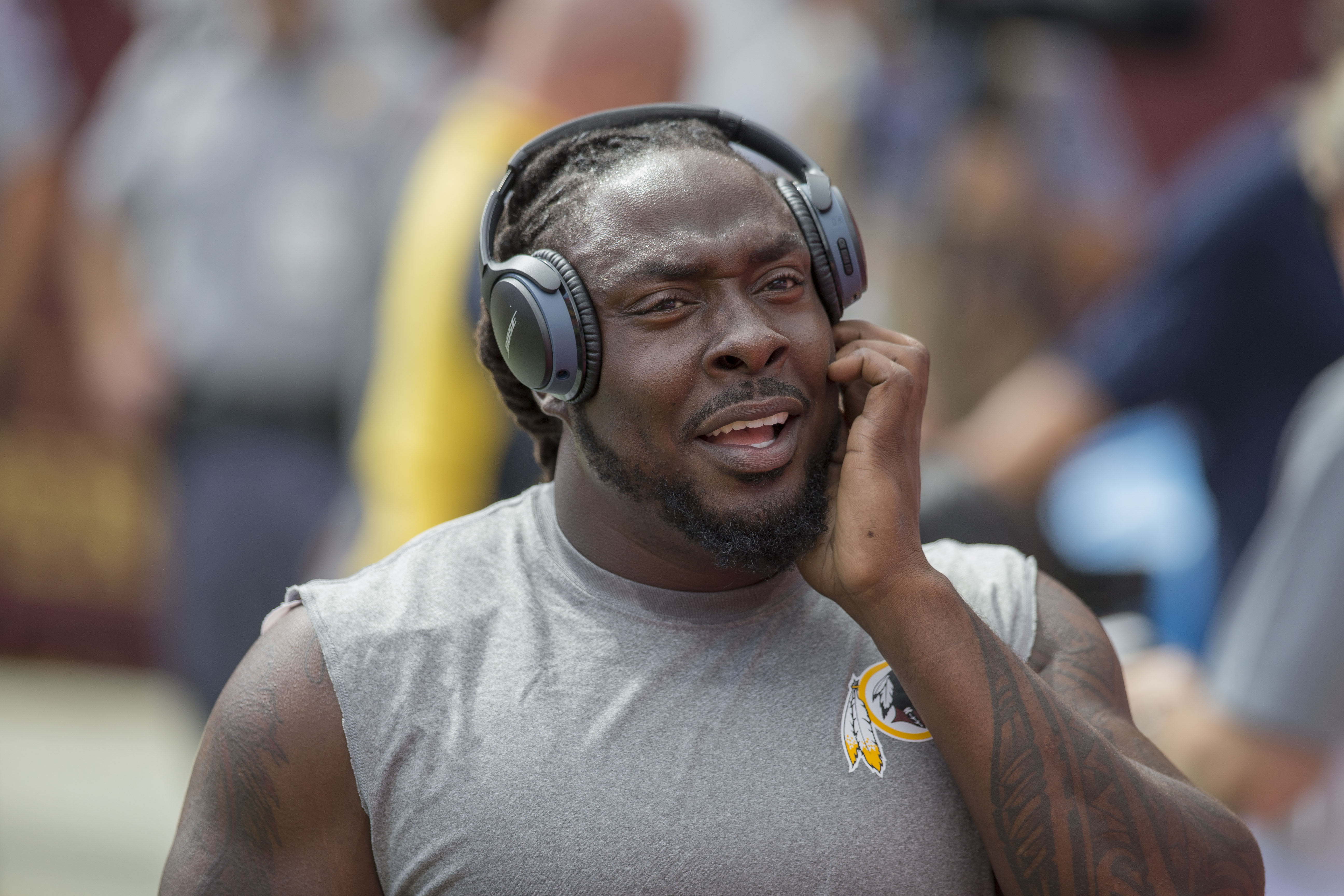 Washington Redskins defensive end, Ricky Jean-Francois, in a game against the Miami Dolphins on September 13, 2015.